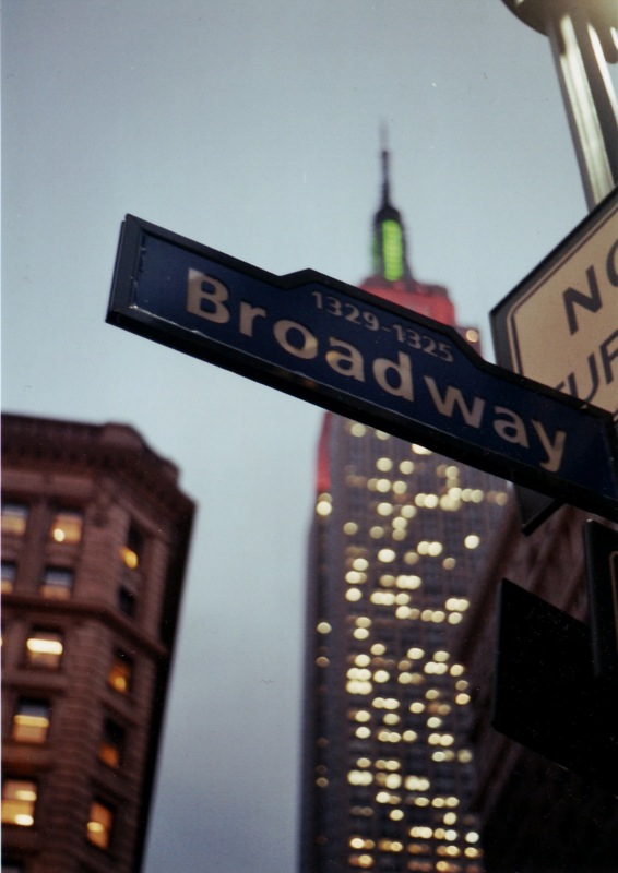 Aimée Tyrrell, December 2005